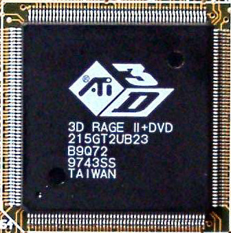 ATI Rage II+DVD chip photo